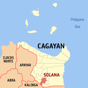 Map of Cagayan showing the location of Solana